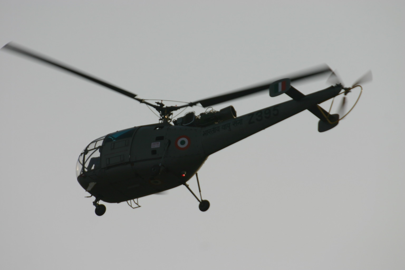 At Delhi Indira Gandhi International Airport